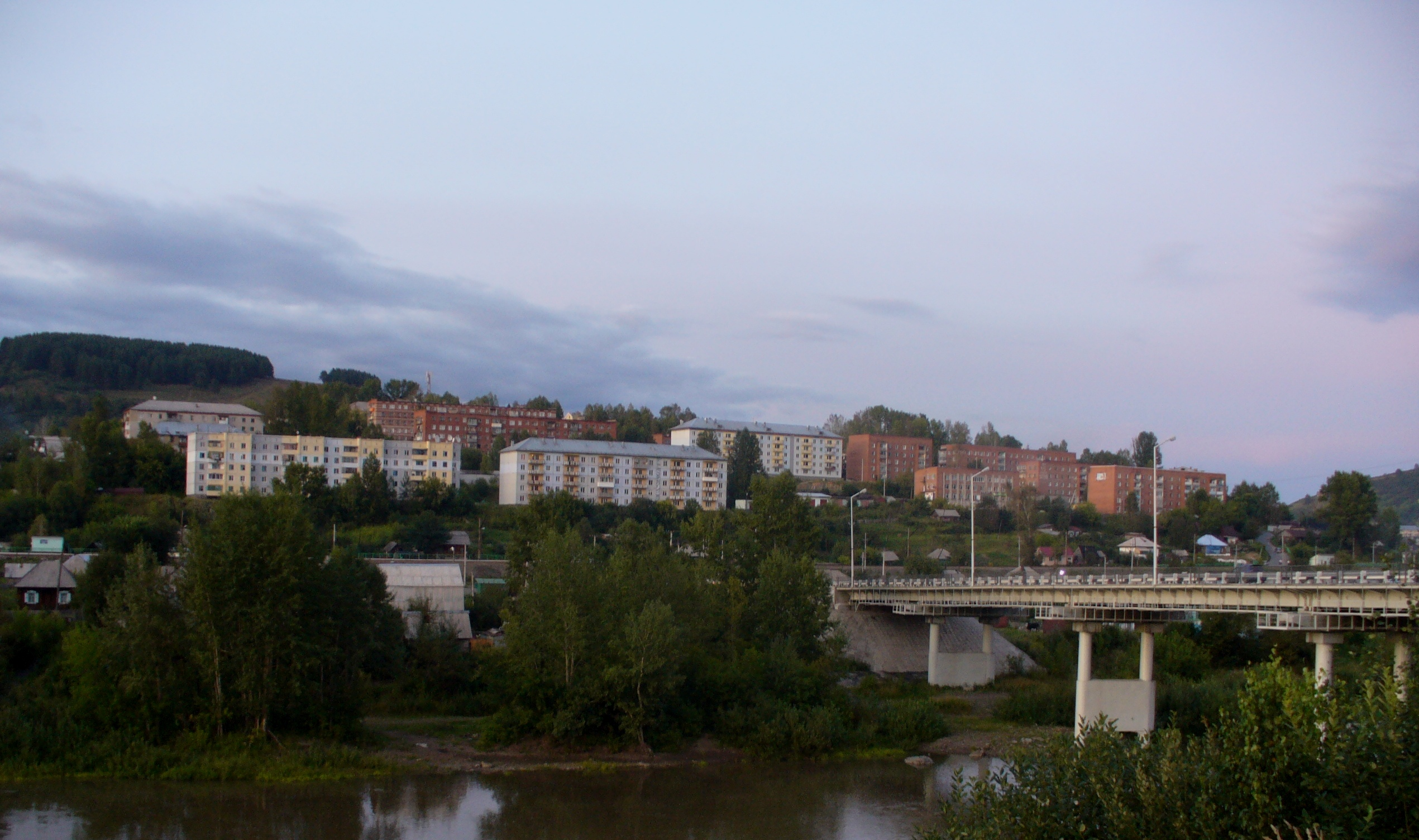 View of Mundybash settlement, Kemerovo oblast, Russia